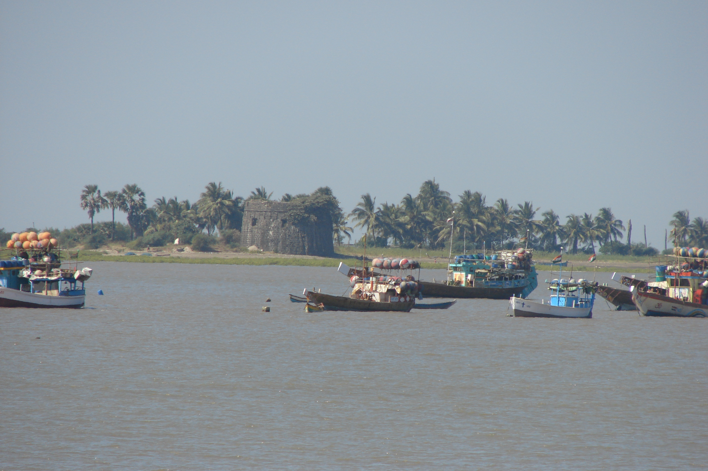 View from Arnala beach